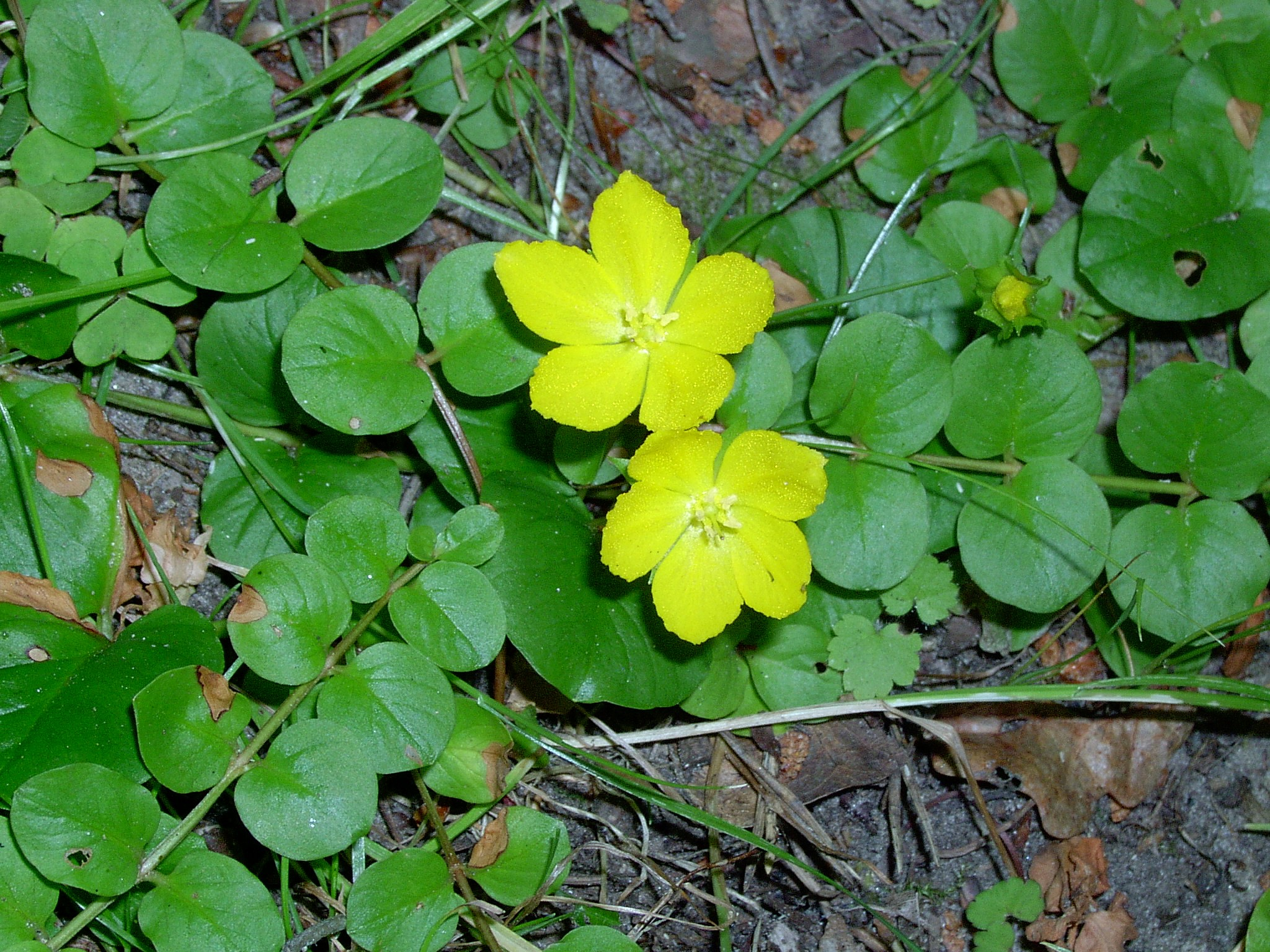 Lysimachia nummularia on Ina river near Goleniow. NW Poland.